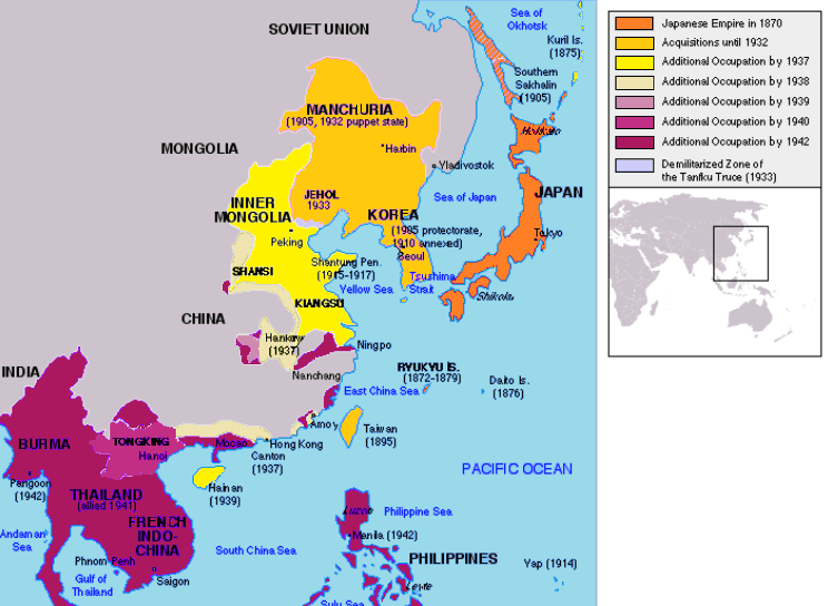 Greater East Asia Co-Prosperity Sphere map